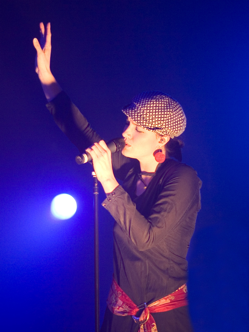 Rebecca St. James singing Wait for Me in April 2007. This song was written about true love waits.